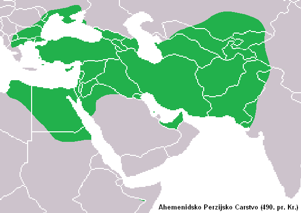 File: Achaemenid Persian Empire 490th pr. Kr .. png